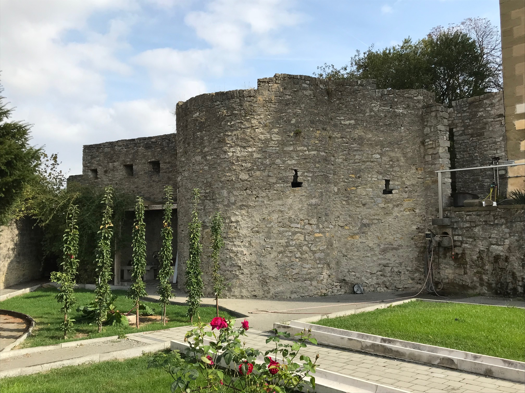 Wehrturm von Burg Arnstein (Main-Spessart) Richtung Innenstadt